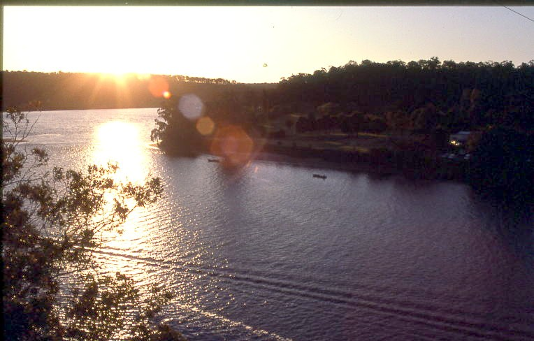 shoalhaven river, australia